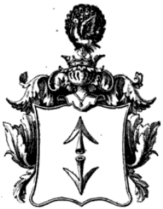 Coat of arms Bogoria from Herbarz polski by Kacper Niesiecki